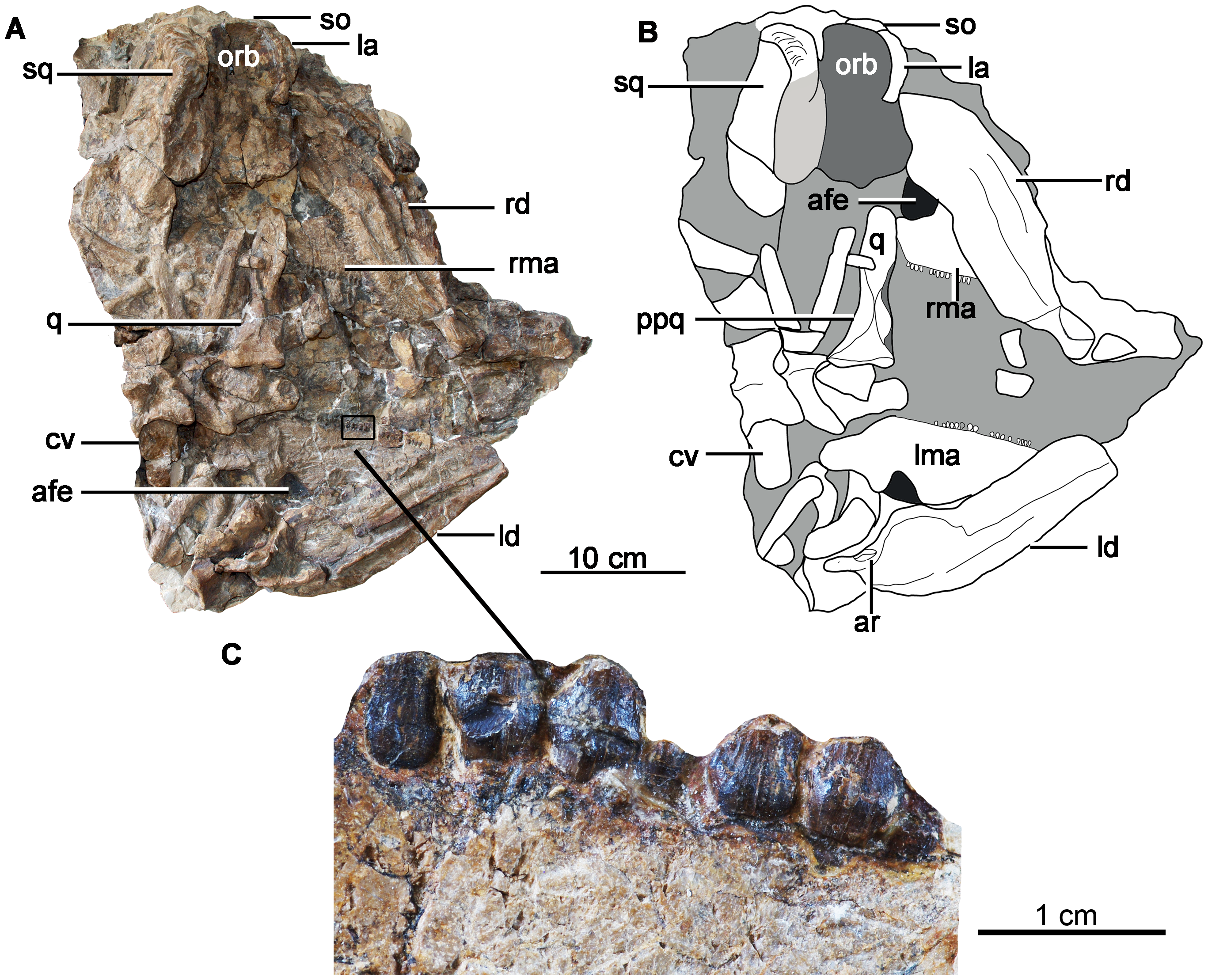 Holotype skull and mandibles of Chuanqilong chaoyangensis. A, photograph in ventral view; B, outline drawing in ventral view; C, close up to maxillary teeth in lateral view. Abbreviations: afe, antorbital fenestra; ar, articular; cv, cervical vertebra; la, lacrimal; ld, left dentary; lma, left maxillary; orb, orbital; ppq, pterygoid process of the quadrate; q, quadrate; rd, right dentary; rma, right maxilla; so, supraorbital; sq, squamosal. [planned for page width].